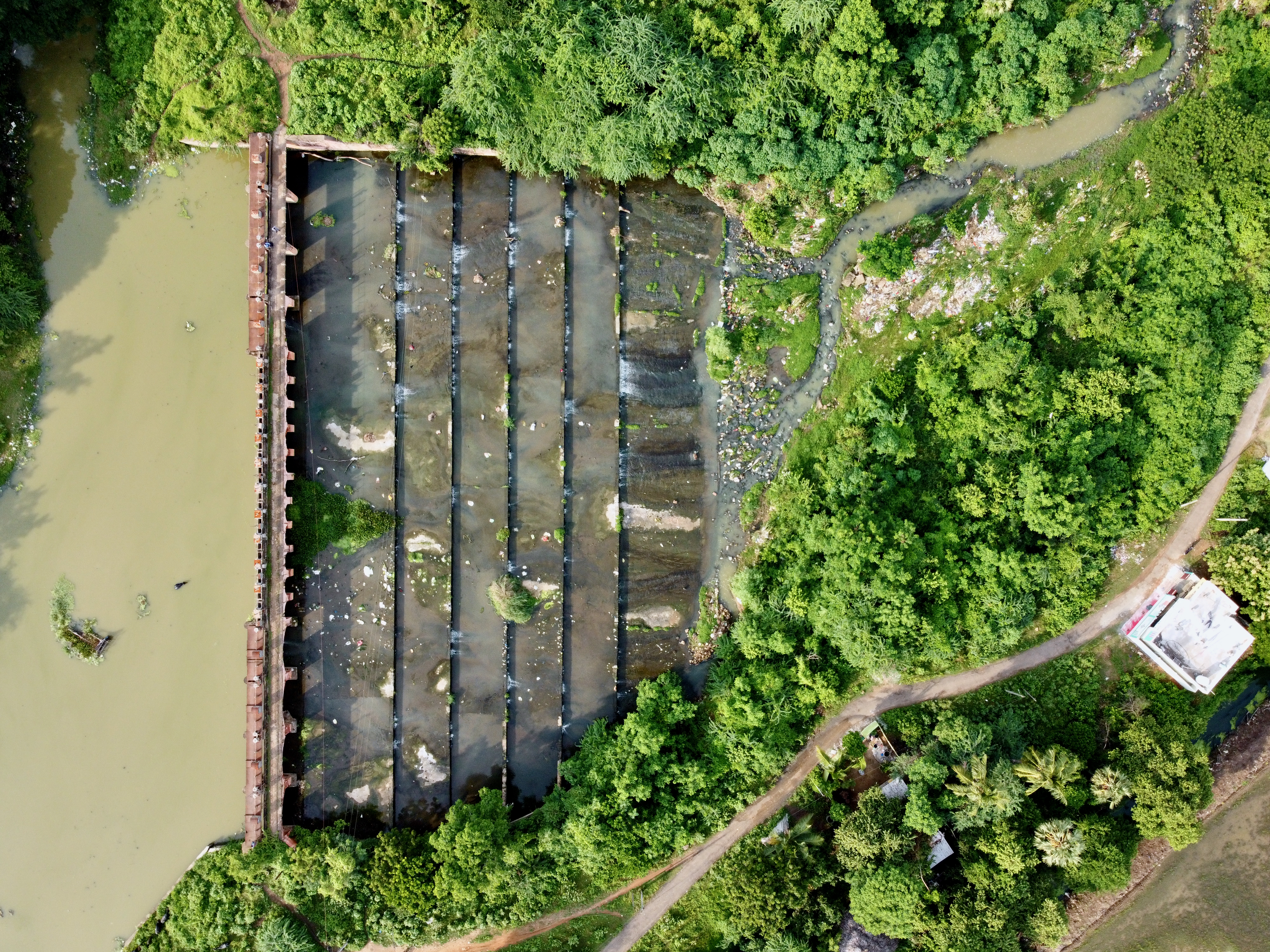 Aerial view of Eastern Locks on Tammileru near Eluru